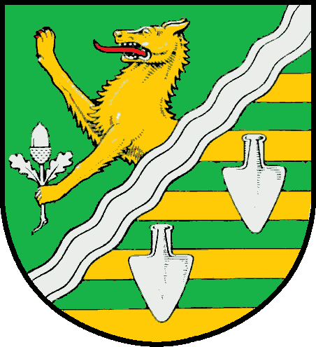 Coat of arms of Probsteierhagen Blasonierung: Durch einen silbernen Wellenbalken schräglinks geteilt. Oben in Grün ein hervorbrechender, rotbewehrter, goldener Wolf mit einem silbernen Eichenzweig in der linken Tatze, unten neunmal von Grün und Gold geteilt, überdeckt mit zwei silbernen Pflugeisen schräg untereinander.